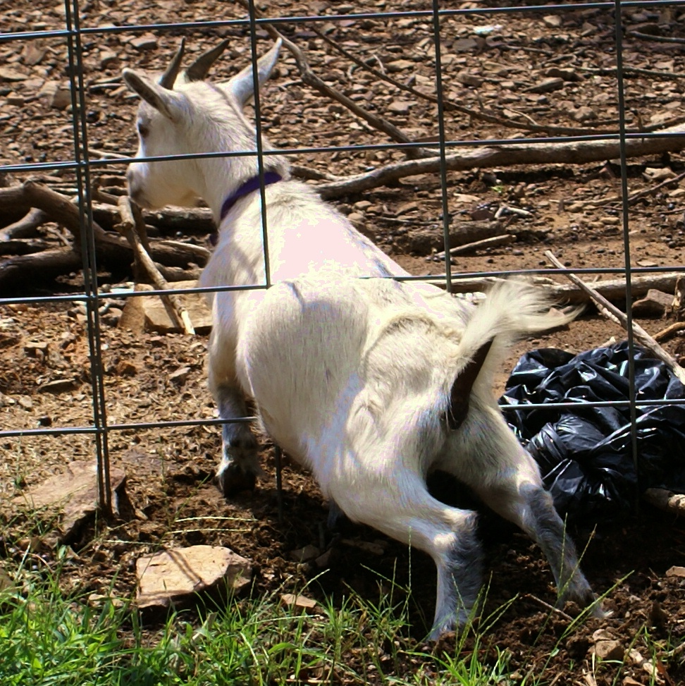 A goat squeezing through a fence